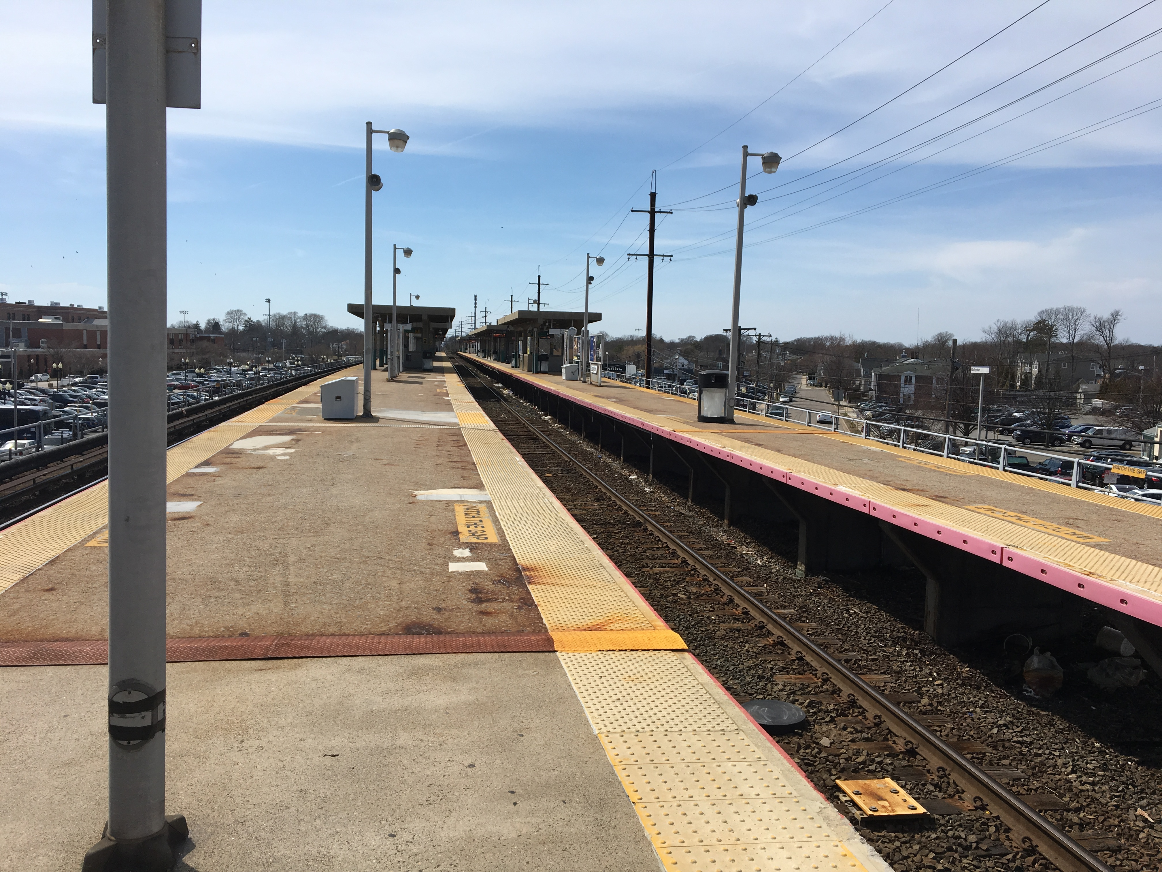 Babylon Station (Platforms) - March 2019